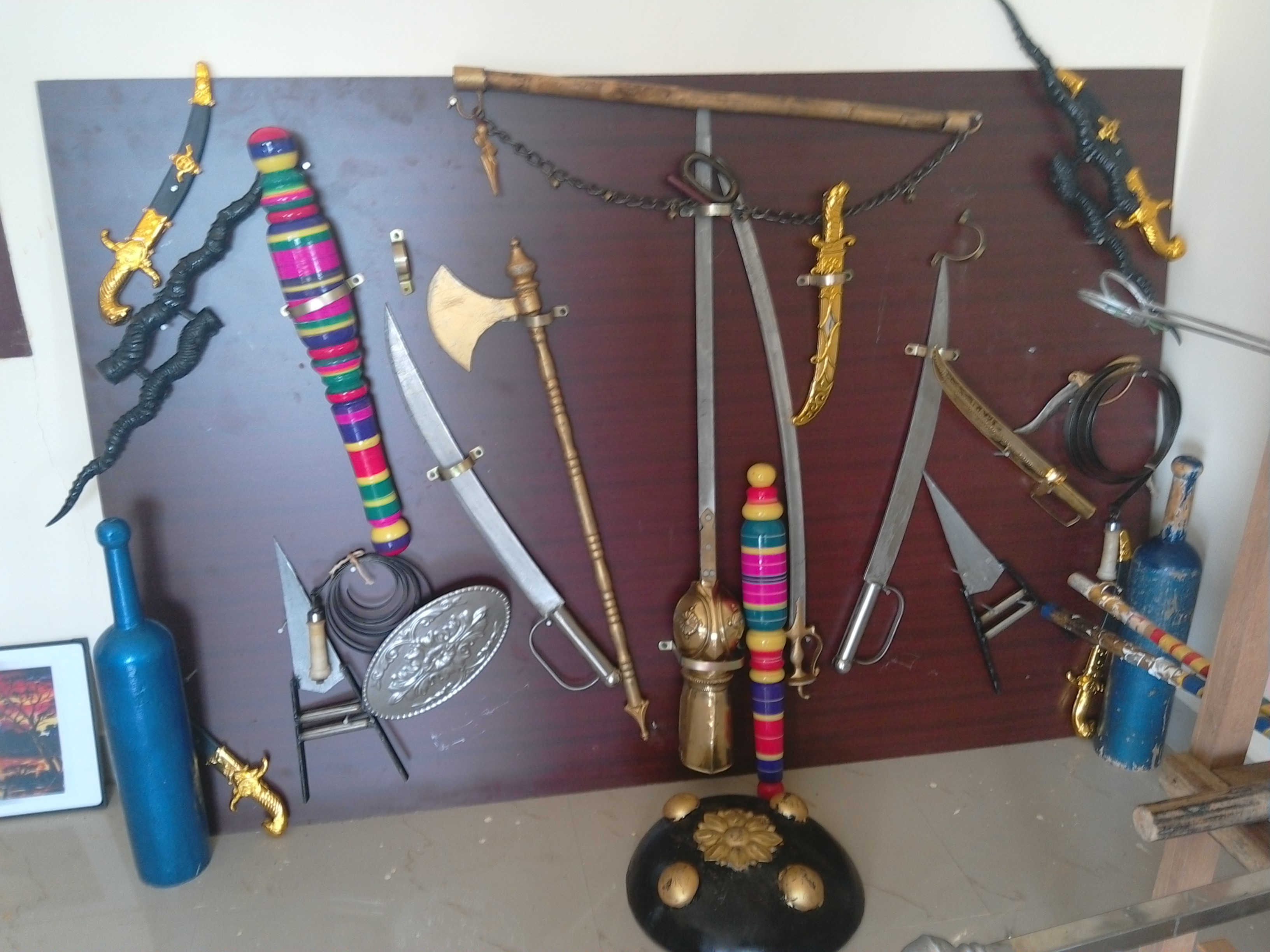 Weapon images of Silambam